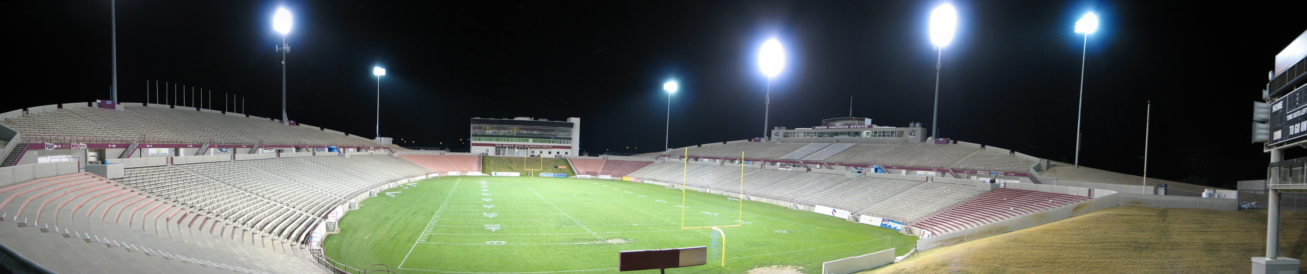 Panoramic photo of Aggie Memorial Stadium, New Mexico State University, at night